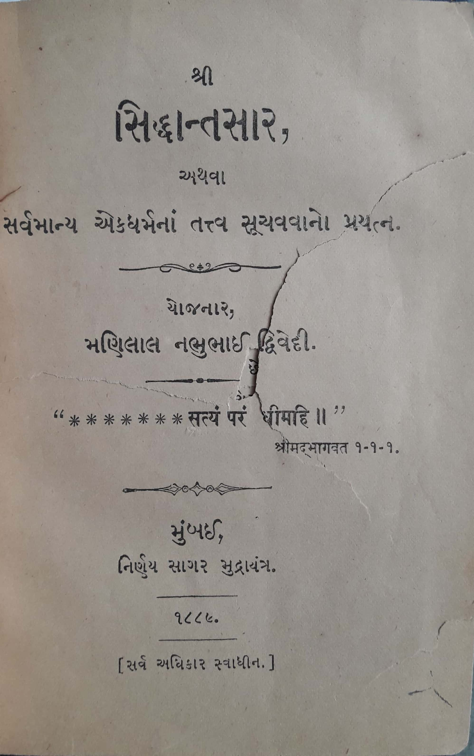 Title page of 'Siddhantasara' written by Manilal Dwivedi